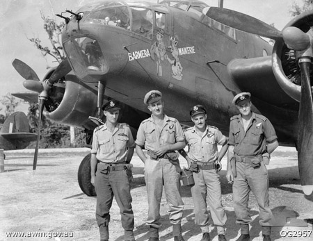 AWM Caption: MADANG, NEW GUINEA. C. 1945-05. CREW OF BEAUFORT BOMBER AIRCRAFT A9-500 OF NO. 15 SQUADRON RAAF. LEFT TO RIGHT: 403843 FLIGHT LIEUTENANT HARRY REGINALD SILCOCK, NEWCASTLE, NSW, PILOT 437010 FLYING OFFICER (FO) ALFRED EDWARD SAGE, RANDWICK, NSW, NAVIGATOR 424723 FO JOHN WALL BAXTER, SYDNEY, NSW, WIRELESS TELEGRAPHY OPERATOR 411233 PILOT OFFICER JOSEPH HENRY SIDDALL, SYDNEY, NSW, AIR-GUNNER NOTE THE NOSE ART INSIGNIA ON THE FUSELAGE AND NICKNAME BARMERA WAIKERIE. IT WAS NAMED AFTER THE TWO TOWNS IN SOUTH AUSTRALIA, IN RECOGNITION OF THE FULFILMENT OF THEIR THIRD VICTORY LOAN QUOTA.